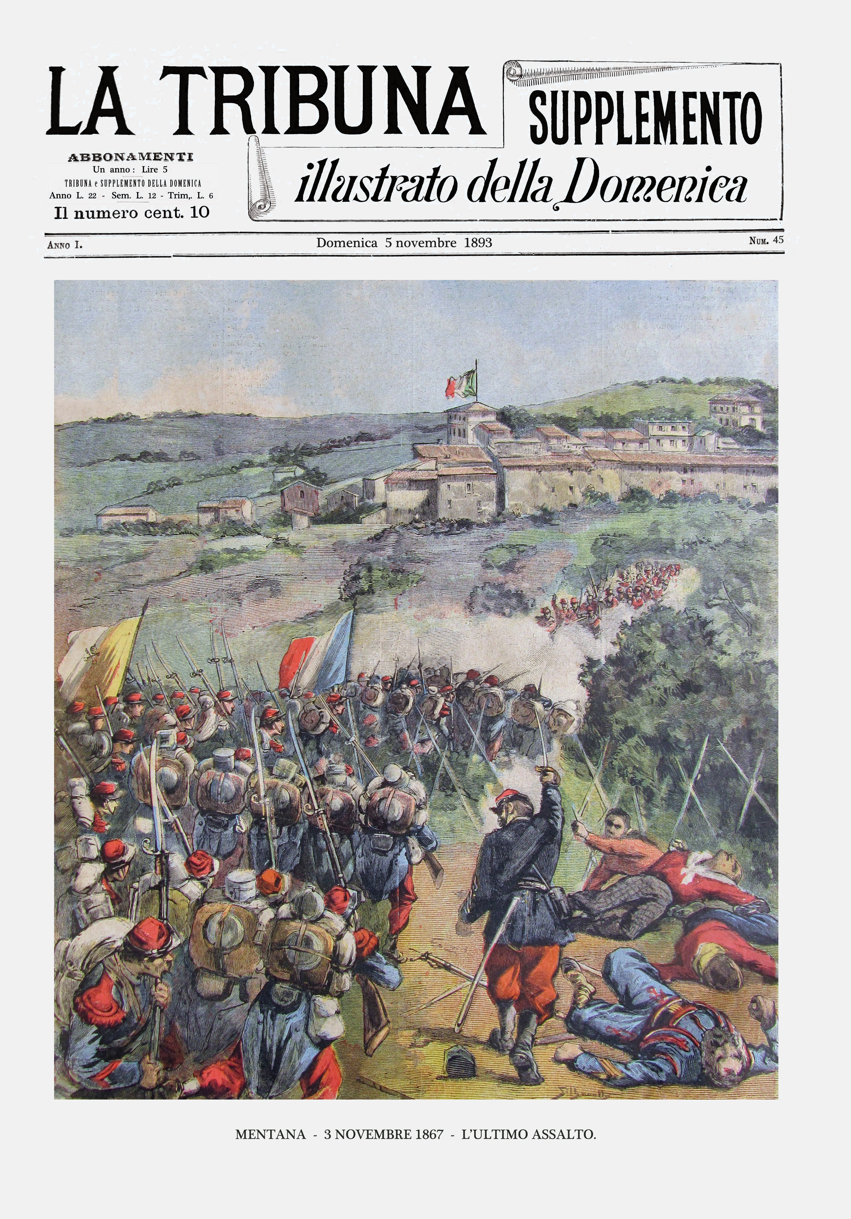 1893 - N. 45